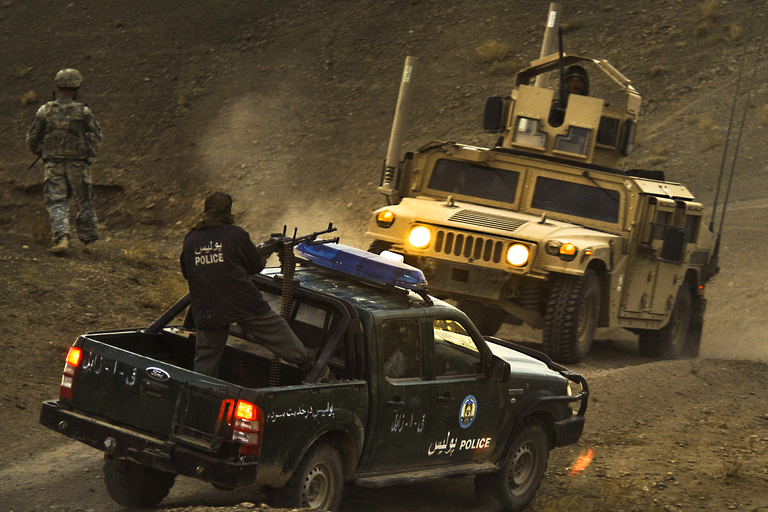 U.S. Soldiers and an Afghan police officer complete a joint patrol in Shabila Kalan, Zabul province, Afghanistan, Nov. 30, 2009. The Soldiers are assigned to the 2nd Infantry Division's 4th Battalion, 23rd Infantry Regiment, 5th Brigade Combat Team. U.S. Air Force photo by Tech. Sgt. Efren Lopez See more at